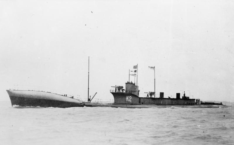 Photograph of Britisk K class submarine HMS K12.